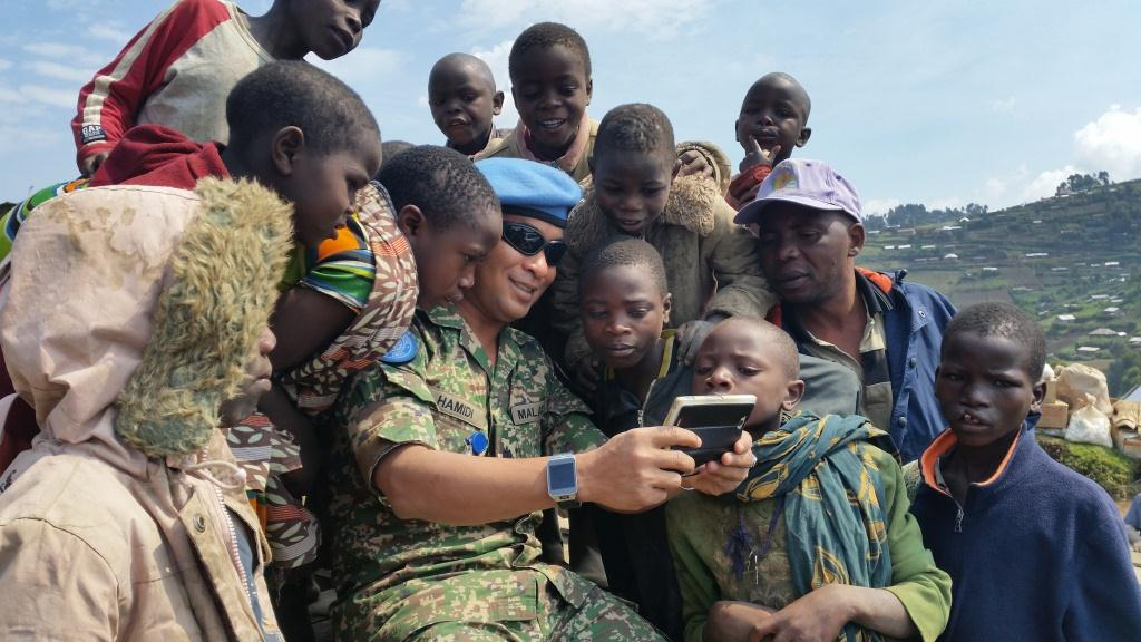 Sake, Nord-Kivu, RD Congo: Un soldat de maintien de la paix montrant une courte vidéo de bande dessinée à un groupe d'enfants au marché de Karuba. Photo MONUSCO /Force == Sake, North Kivu, DR Congo: A peacekeeper showing a short clip of cartoon to a group of children at Karuba Market. Photo MONUSCO/Force